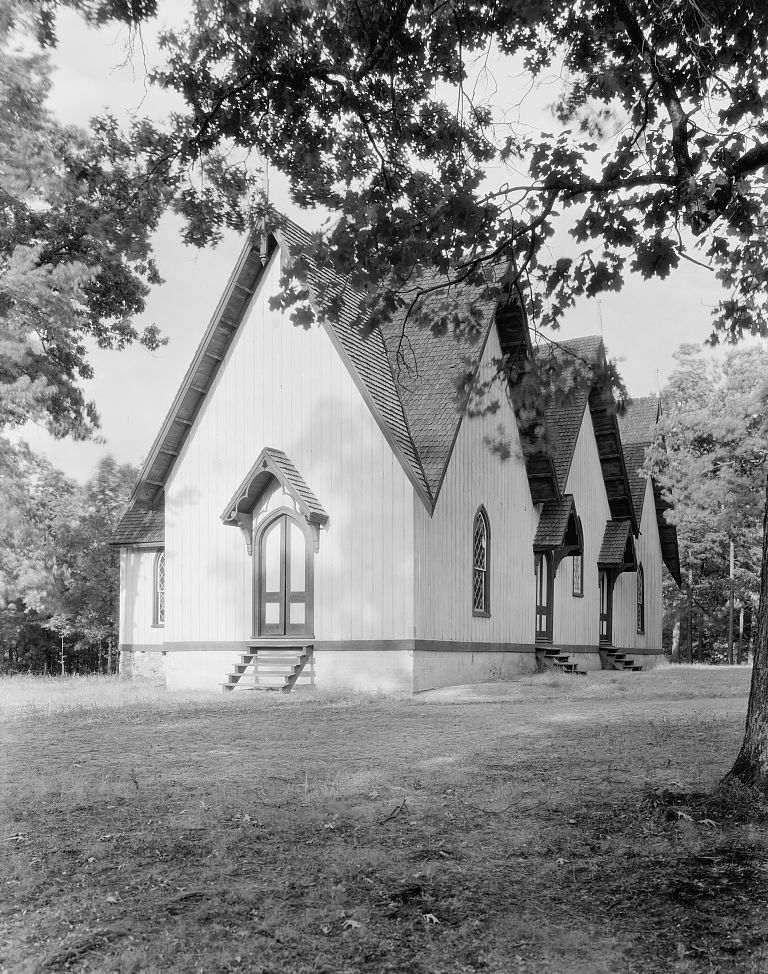 View of the exterior of Briery Church, Prince Edward County, Virginia, by the American photographer and photojournalist Frances Benjamin Johnston. Dated circa 1930-1939. The 8 x 10 black-and-white photographic negative forms part of the Johnston archives at the Library of Congress, to whom the photographer donated her archives in perpetuity, hence there are no restrictions on publication, as per the Library website. Image courtesy of the Prints and Photographs Division, Library of Congress, Washington, D.C.